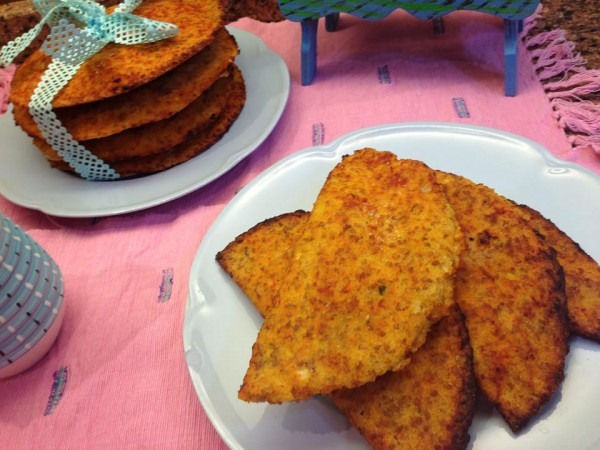 Traditional Eat from Mosul,Iraq